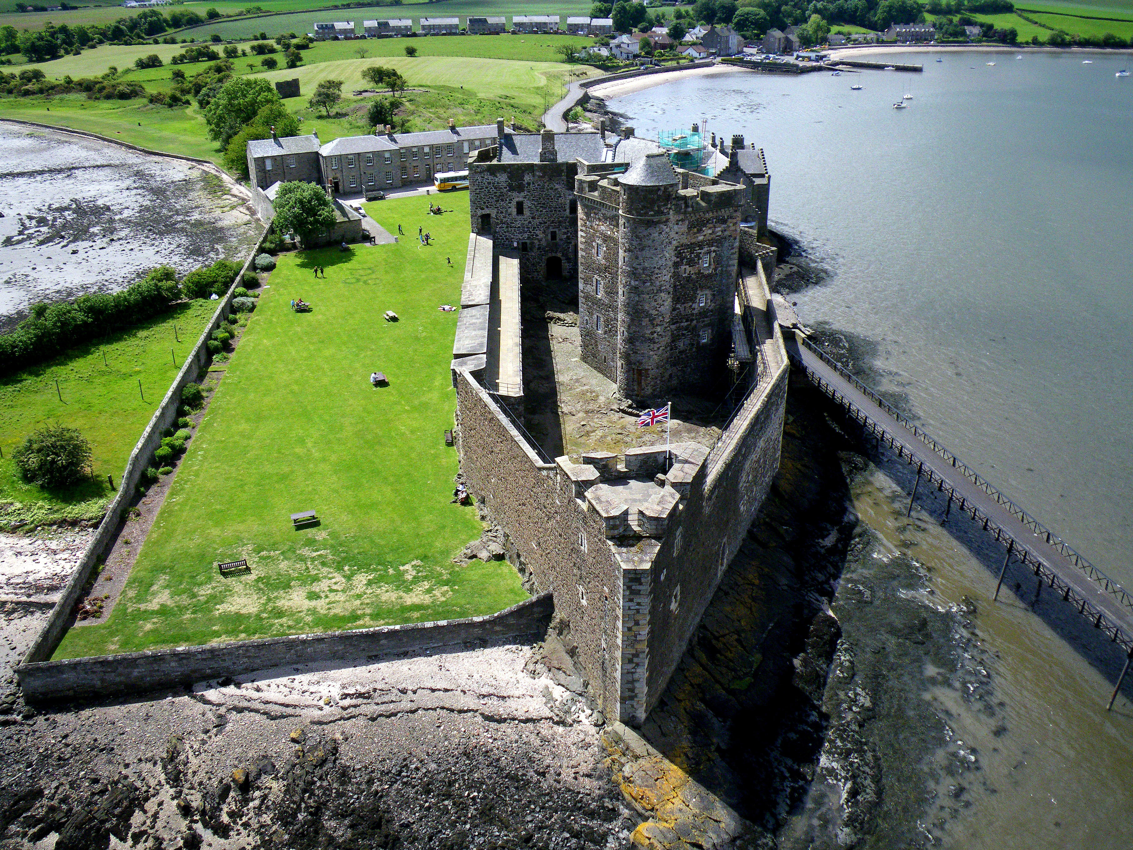 Kite aerial photo of Blackness Castle, Blackness, Scotland. The castle was built in the 1440s on a promontory projecting north into the Firth of Forth.